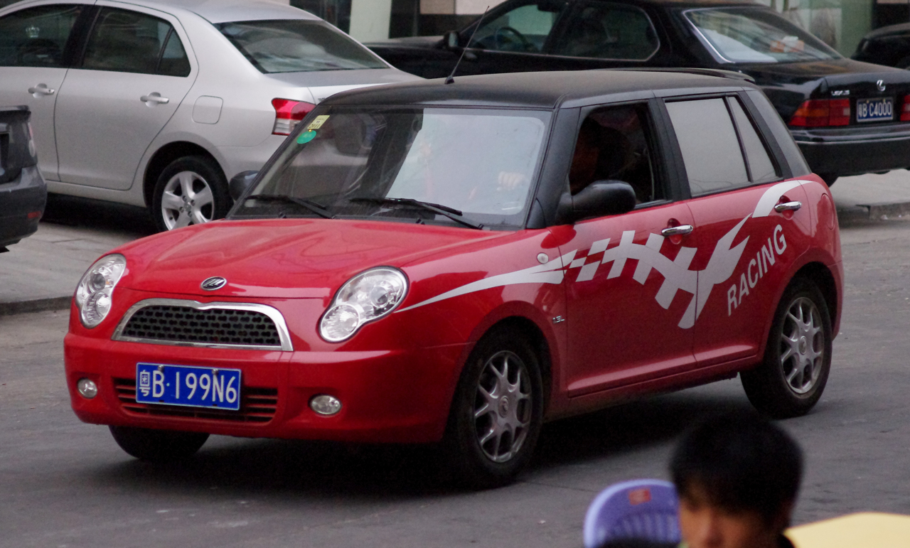 Chinese copy of (BMW) MINI Cooper